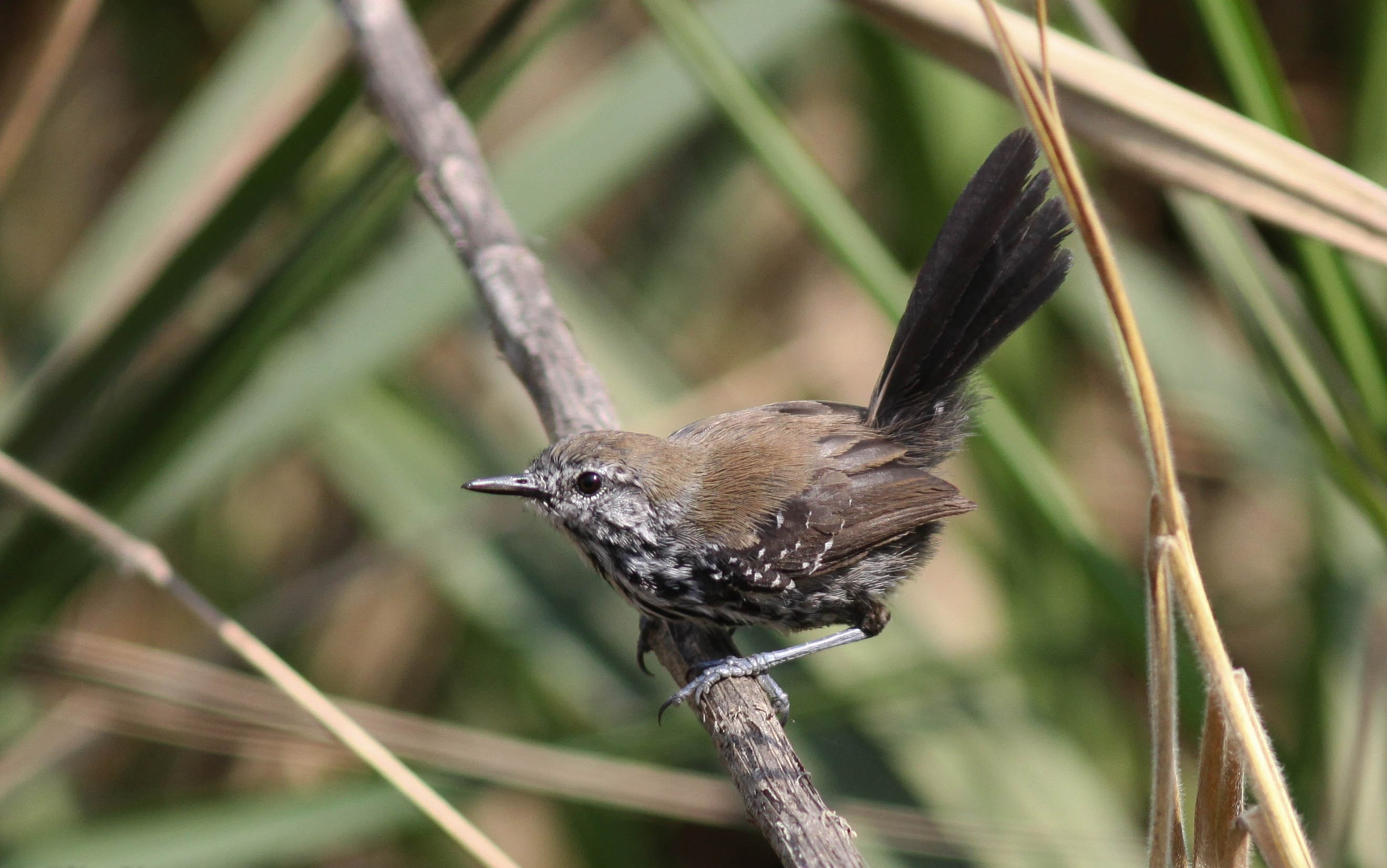 Female São Paulo Marsh Antwren (Formicivora paludicola; "bicudinho-do-brejo-paulista") in Biritiba-Mirim, São Paulo, Brazil. A recently discovered species. Closely related to the Paraná/Marsh Antwren (Formicivora [Stymphalornis] acutirostris